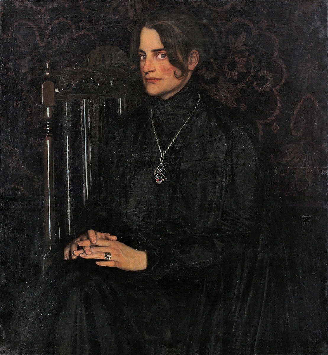 Clara Rilke